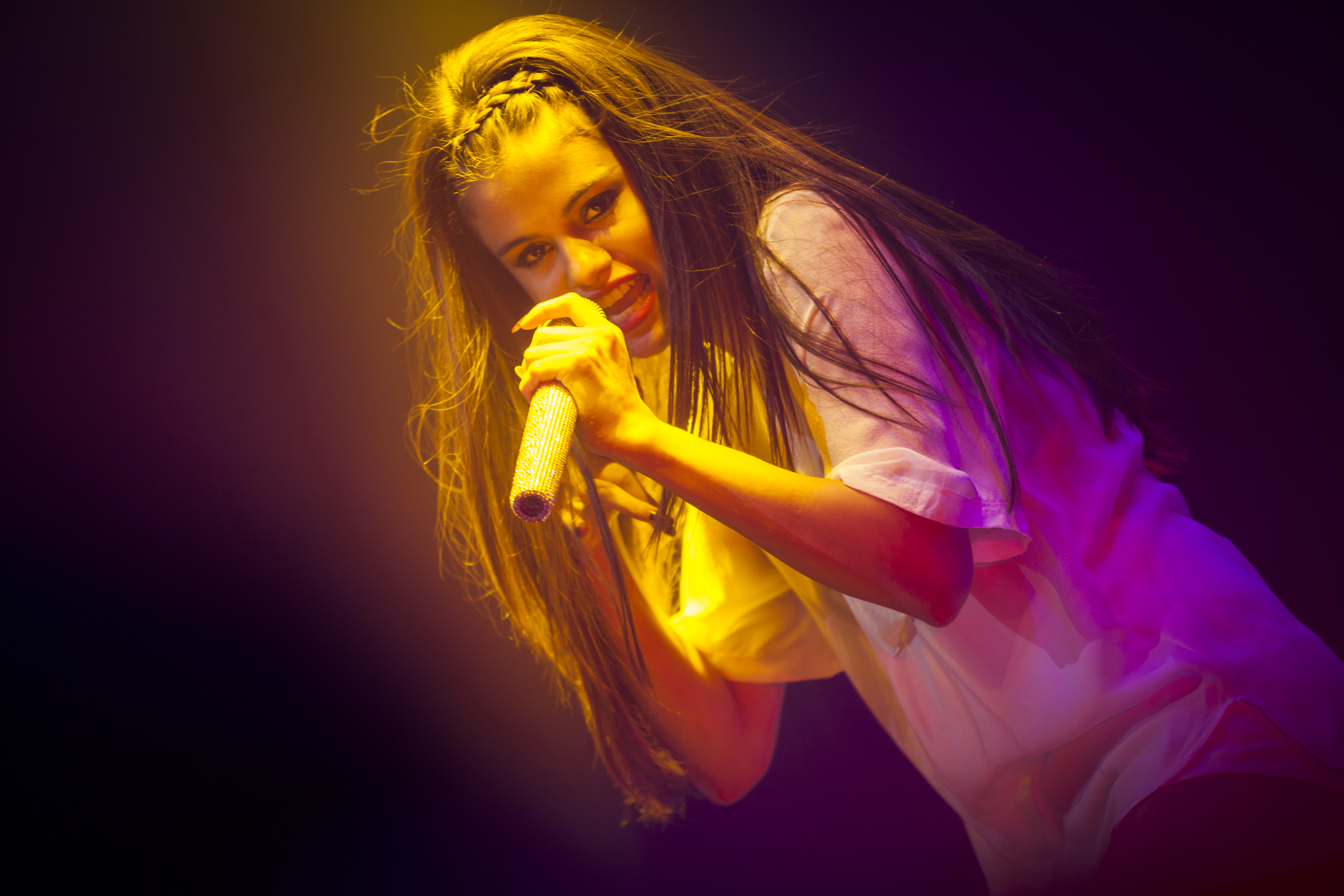 Selena Gomez during the Stars Dance Tour, Norway, september 2013.